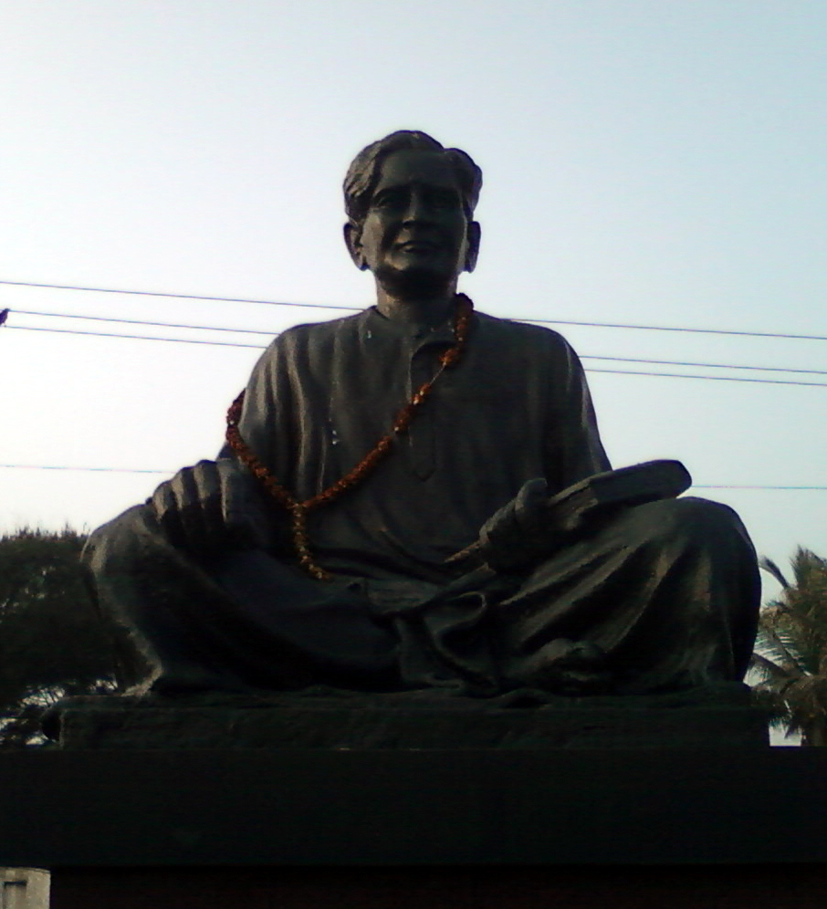 Adavi Baapiraju Statue at RK Beach in Visakhapatnam